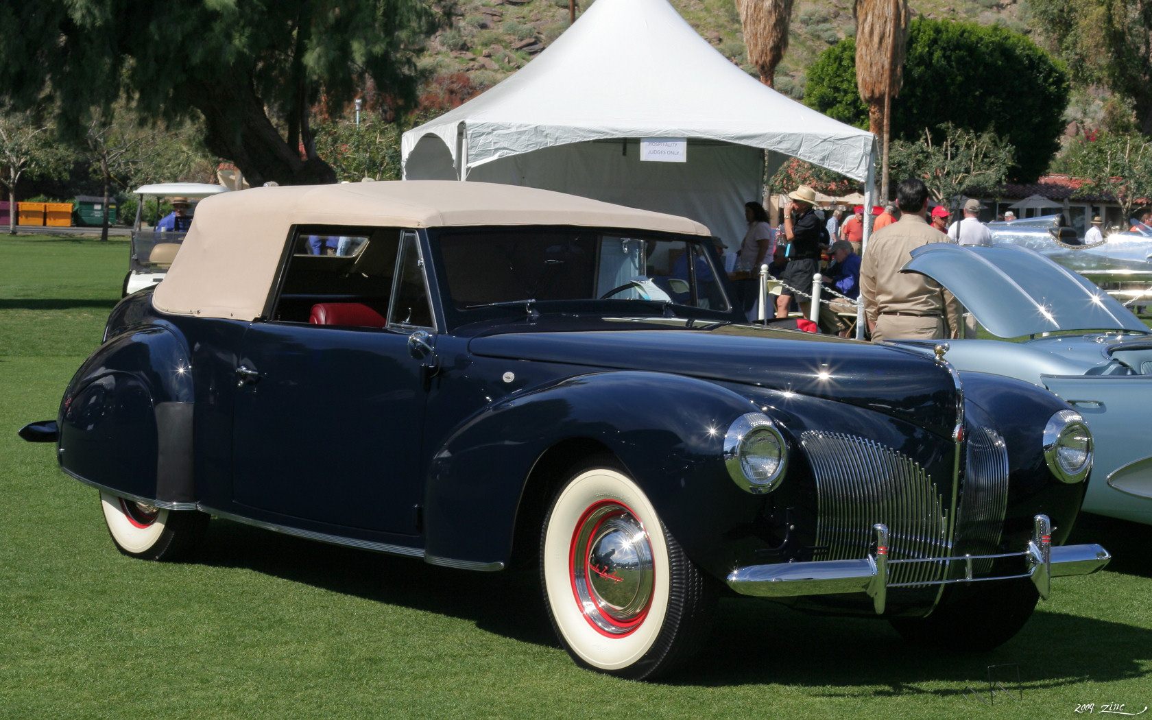 Palm Springs Desert Classic Concours d'Elegance, March 01, 2009